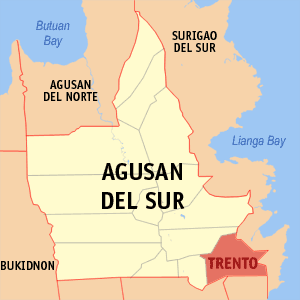 Map of the Agusan del Sur showing the location of Trento